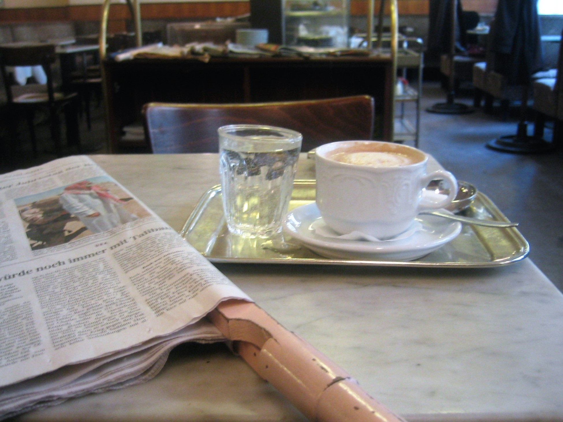 Typical scene in a Viennese "Kaffeehaus" café (coffee with tap water and newspaper), in the Café Bräunerhof in Vienna, Austria